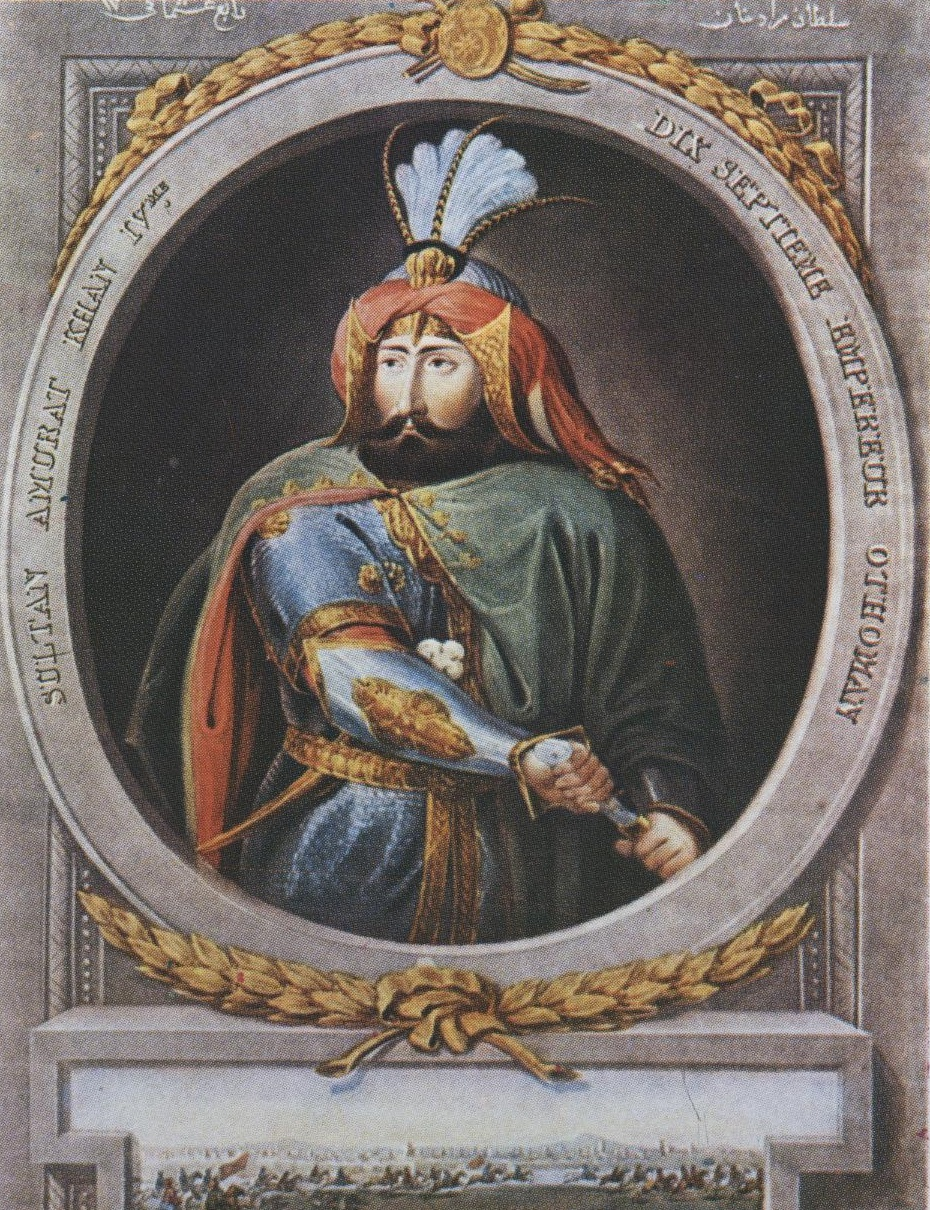 Murad IV